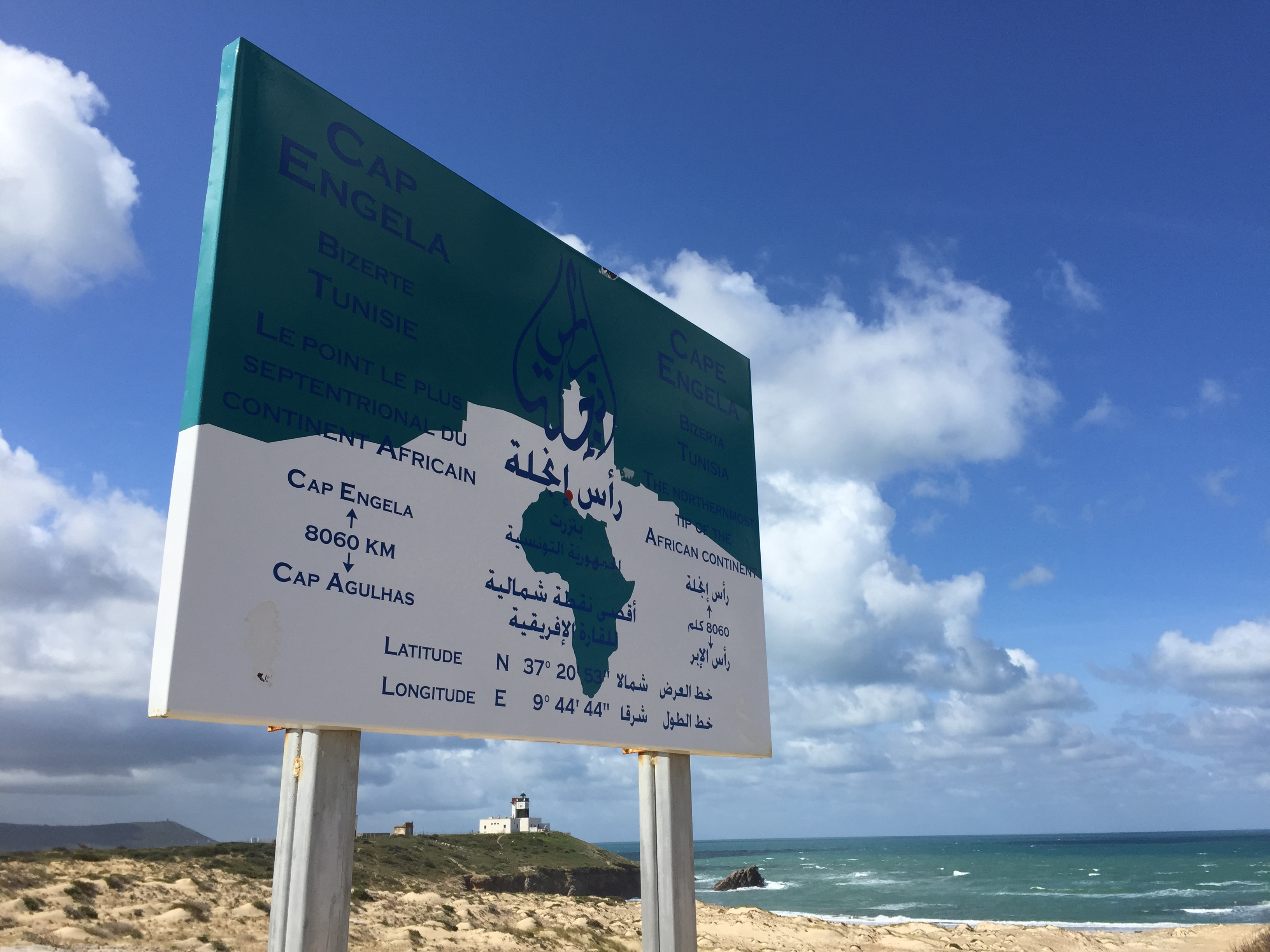 Information board near Cap Engela, the northernmost tip of the African continent. The board is situated approximately 250 meters off the northernmost tip.